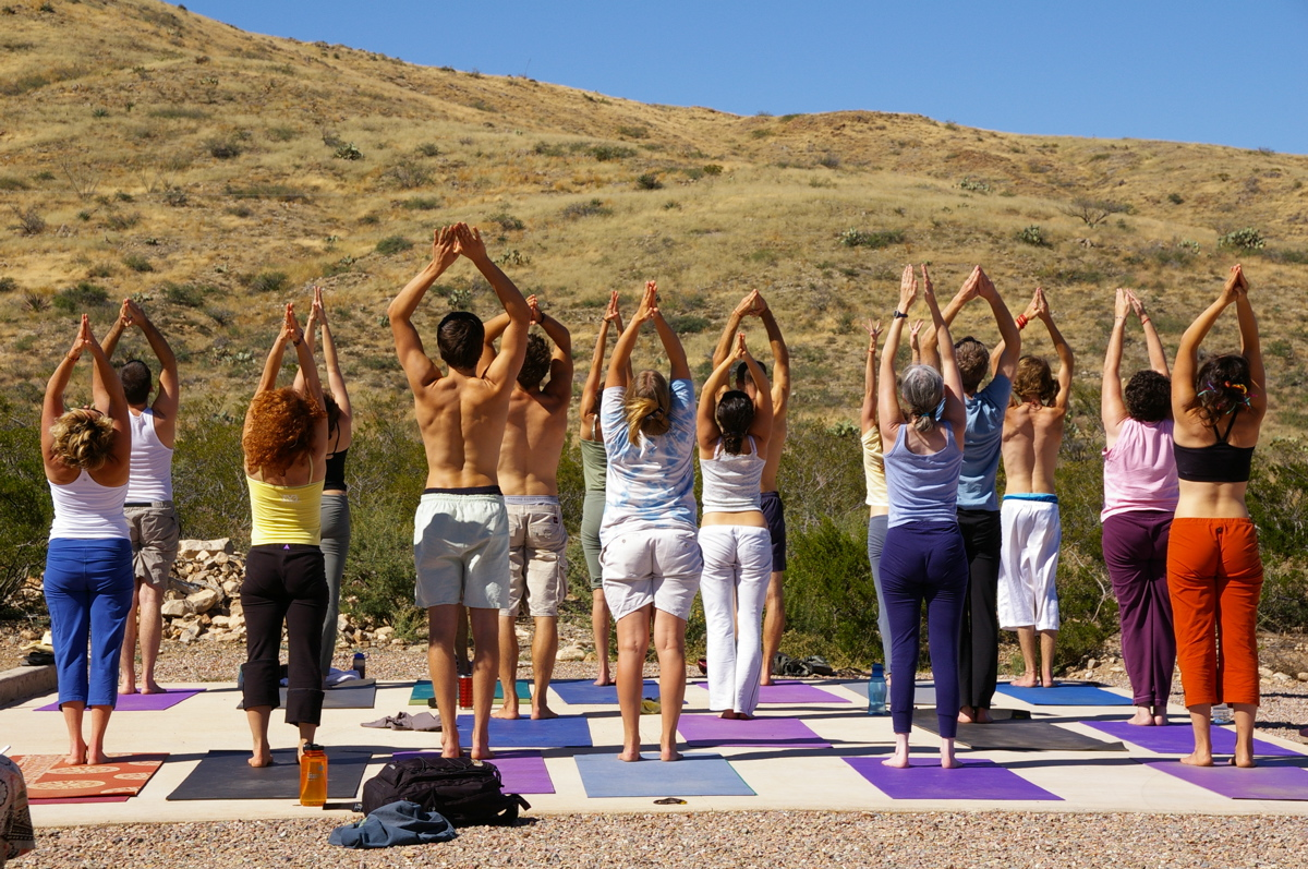 Original title and description: "Suryathon 4" Diamond Mountain students were sponsored to complete 108 sun salutations (surya namaskar) to raise money for the Diamond Mountain campground.